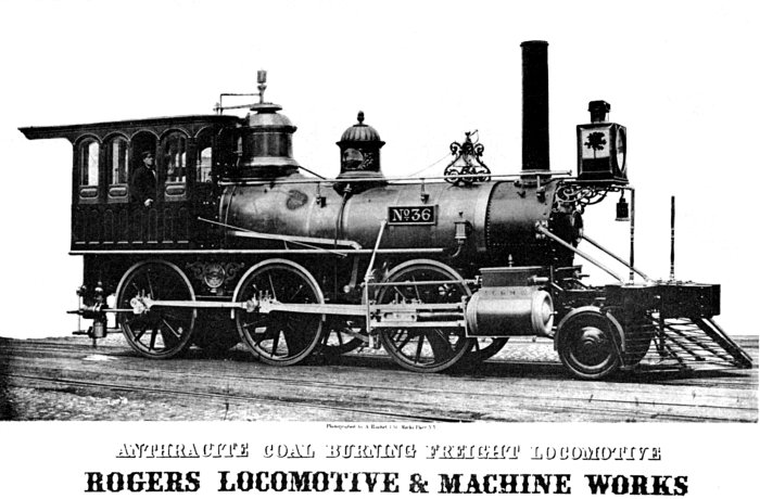 Figure 11.—The New Jersey Railroad and Transportation Company No. 36, built by the Rogers Locomotive and Machine Works in 1863, was one of the first locomotives to be equipped by this firm with a 2-wheel Bissell truck. (Smithsonian photo 46806-m)